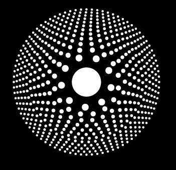 Photon Sieve, generated with Zone Plate calculator at